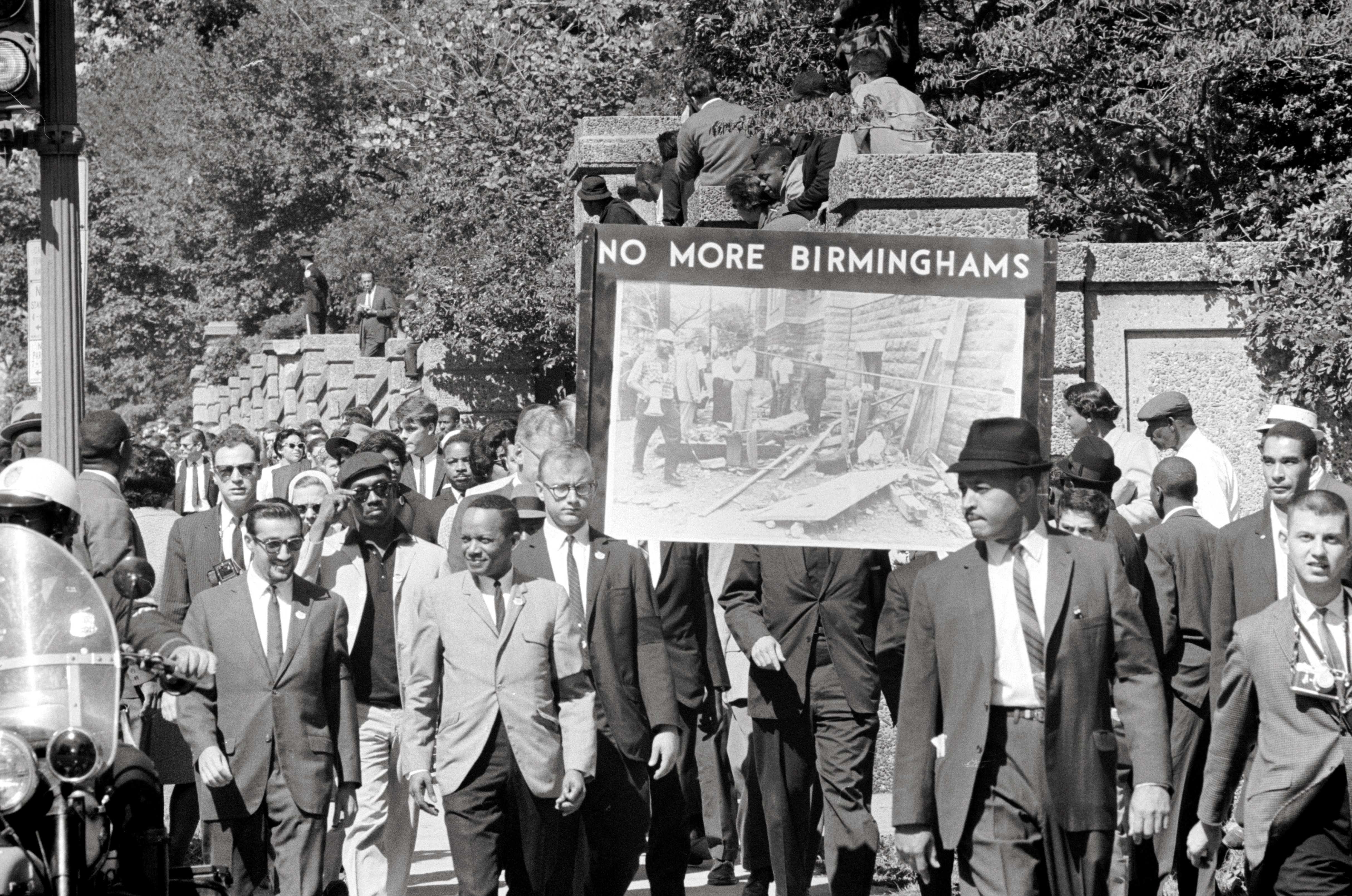 Congress of Racial Equality and members of the All Souls Church, Unitarian located in Washington, D.C. march in memory of the 16th Street Baptist Church bombing victims. The banner, which says “No more Birminghams”, shows a picture of the aftermath of the bombing.